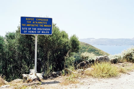 Site of the discovery of the Venus de Milo on Melos, Greece